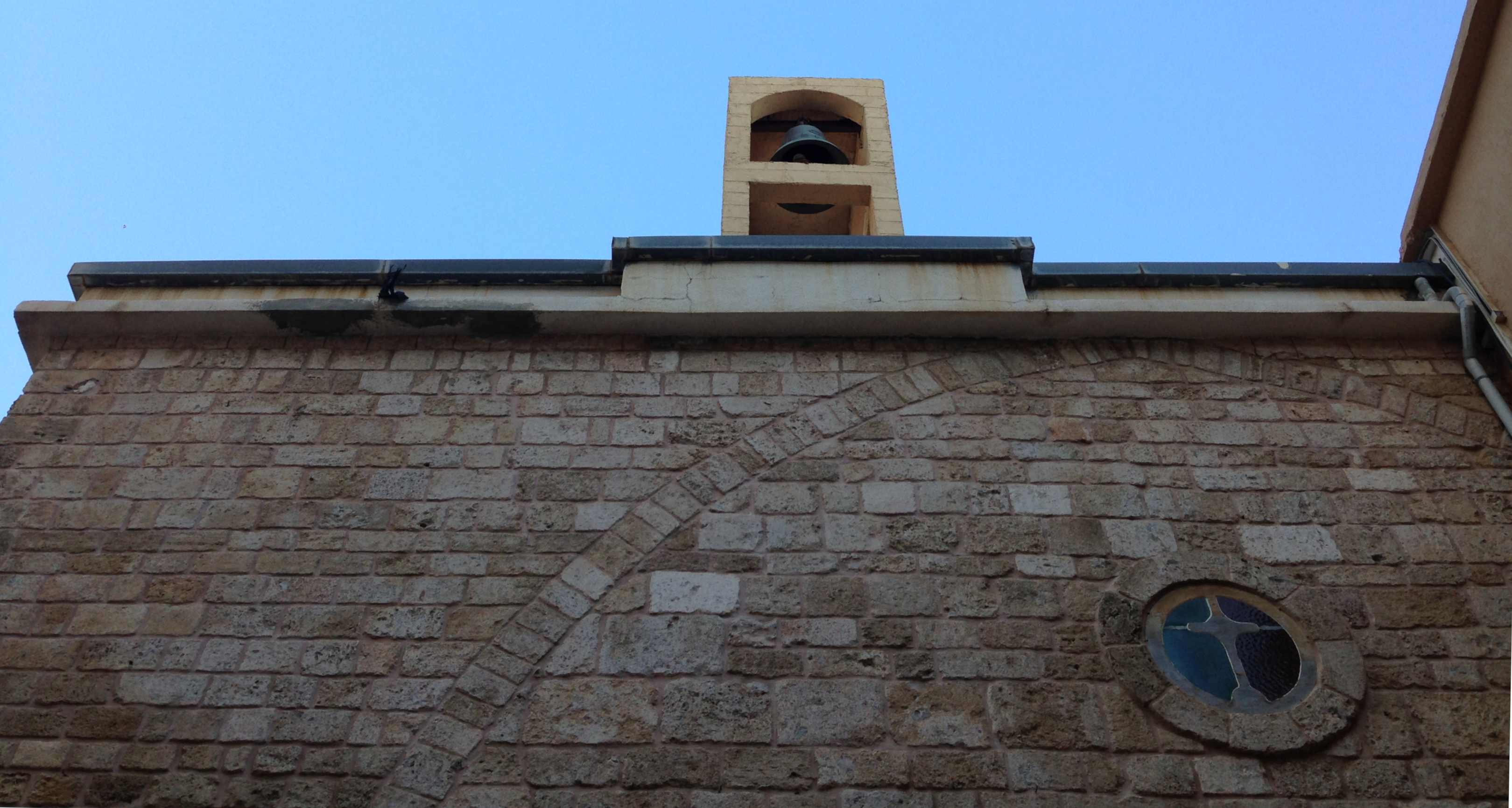 The Greek-Orthodox church of St. Thomas (Eglise Saint Thomas des grecs orthodoxes) in the Christian quarter of the Old Town of Tyre (Sour/Tyr/Tyros), Southern Lebanon.